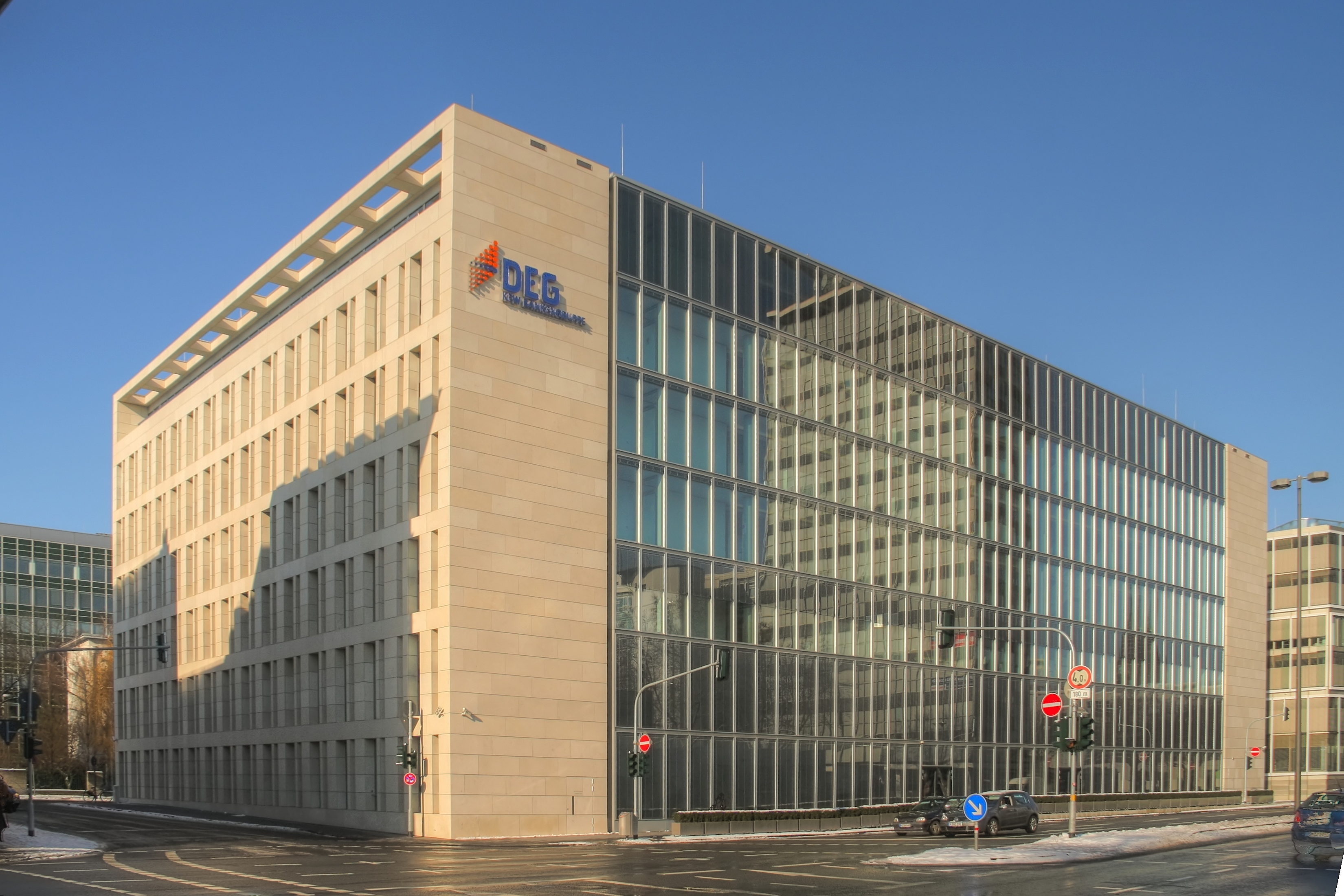 Headquarter of German Investment Corporation ("Deutsche Investitions- und Entwicklungsgesellschaft (DEG)), Cologne. View from Neuköllner Str.